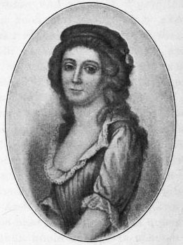 Mariane Theresia Sophie "Maria Sofia" Karsten, born Mariana Teresia Stebnowska, Polish-Swedish actress, harp player and singer